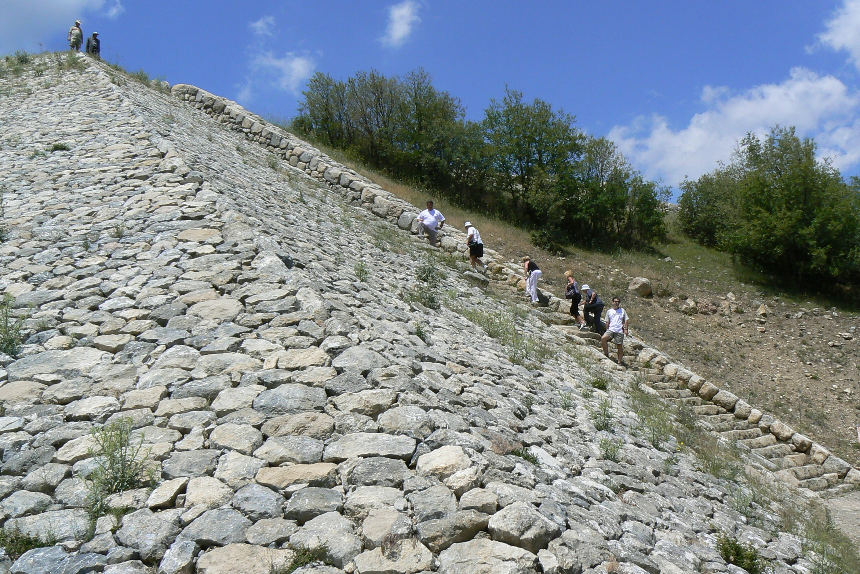 Yerkapi, rampant, Hattusa, Turkey